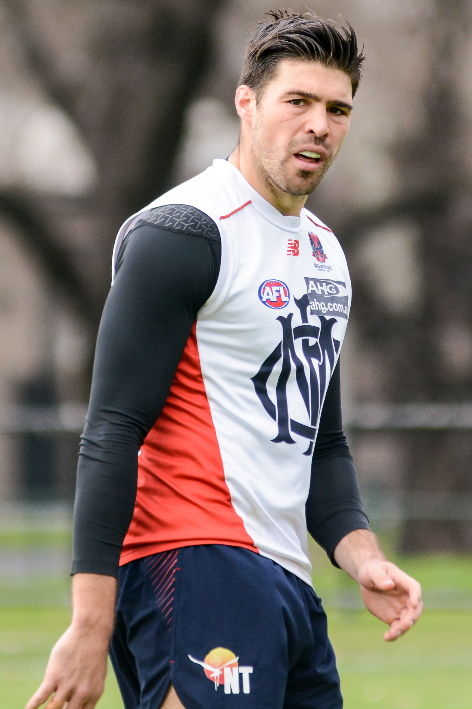 Chris Dawes at training during July 2015